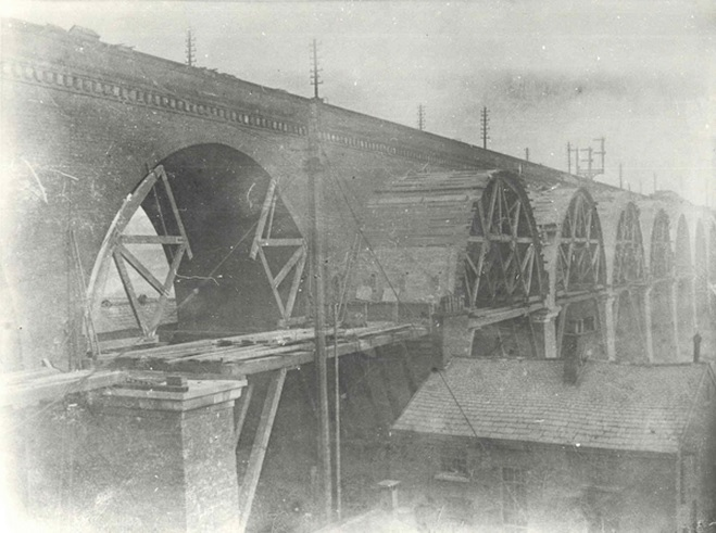 Stockport Viaduct being widened to take more rail traffic.